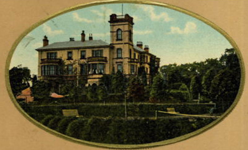 Tranby Croft in Anlaby, East Riding of Yorkshire, England from a postcard about 1920